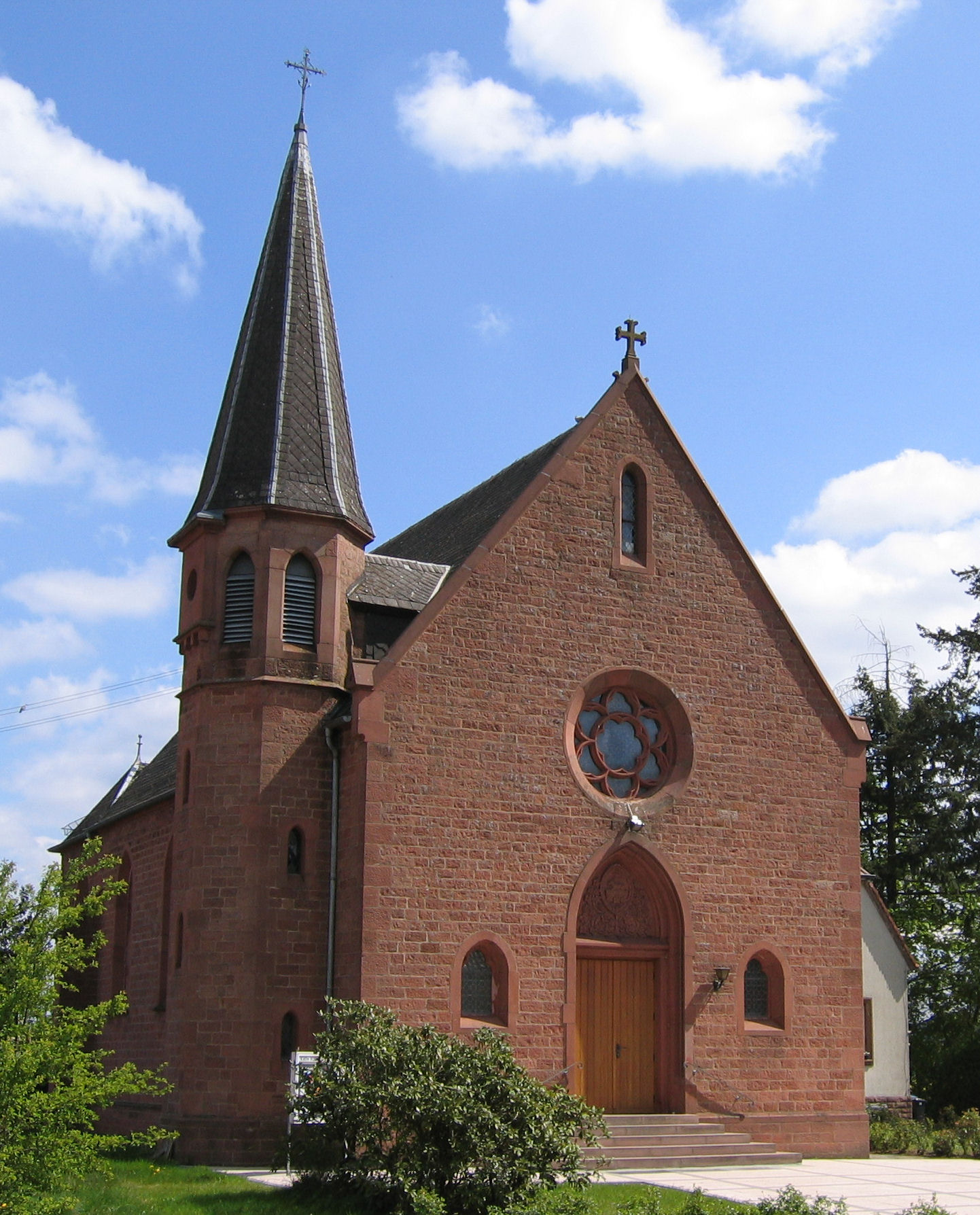 view of Mehlingen, Germany